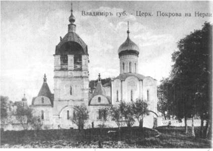 Intercession Church on the Nerl River